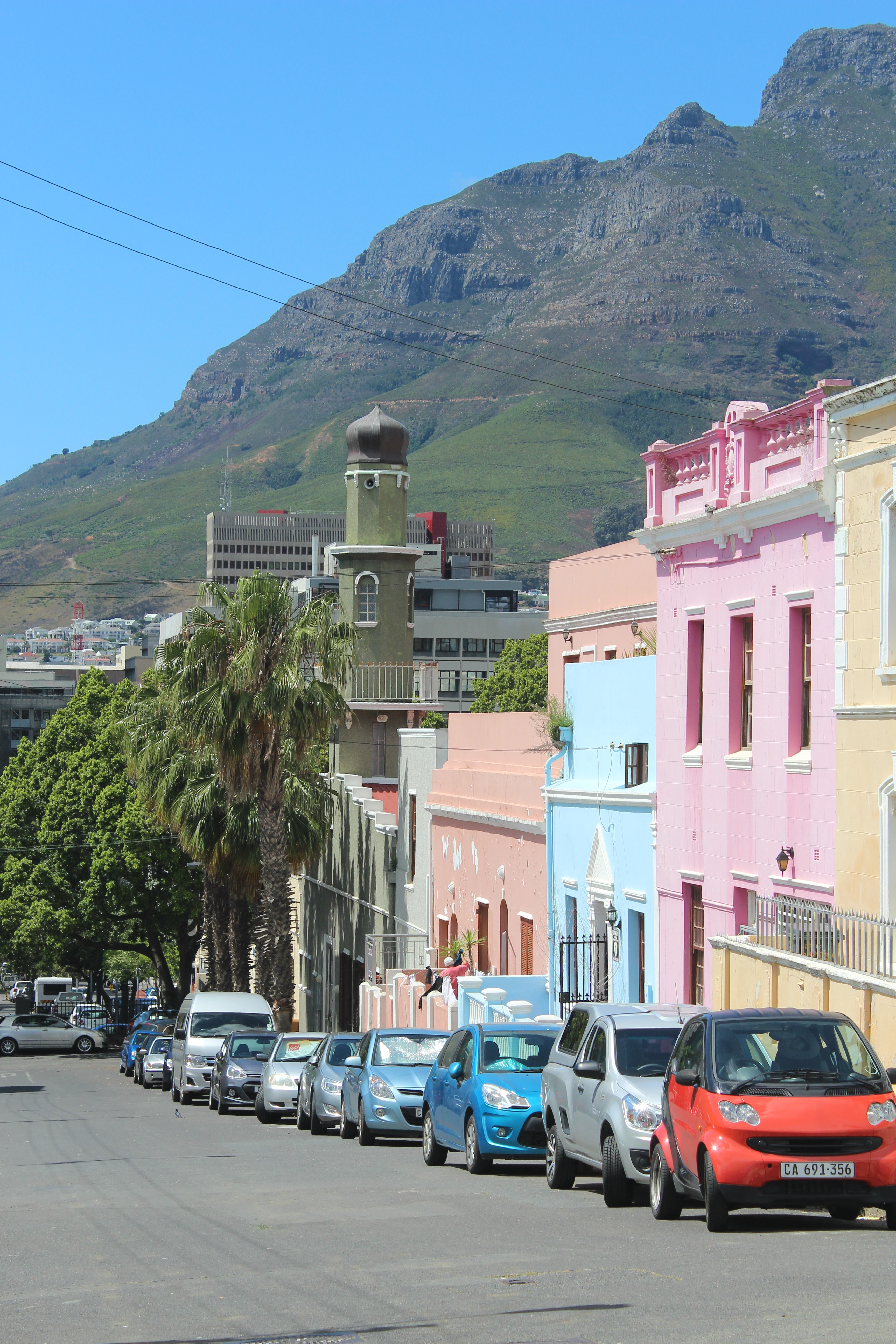 Dorp Straat in the Bo-Kaap showing the colourful houses of Cape Malay community and the Auwal Mosque - the oldest mosque in South Africa. The Bo-Kaap is on the slopes of Signal Hill, adjacent to the Cape Town CBD which is in the middle distance while Table Mountain, the most distinctive feature of Cape Town, is in the background. The whole area is classed as a South African Heritage site